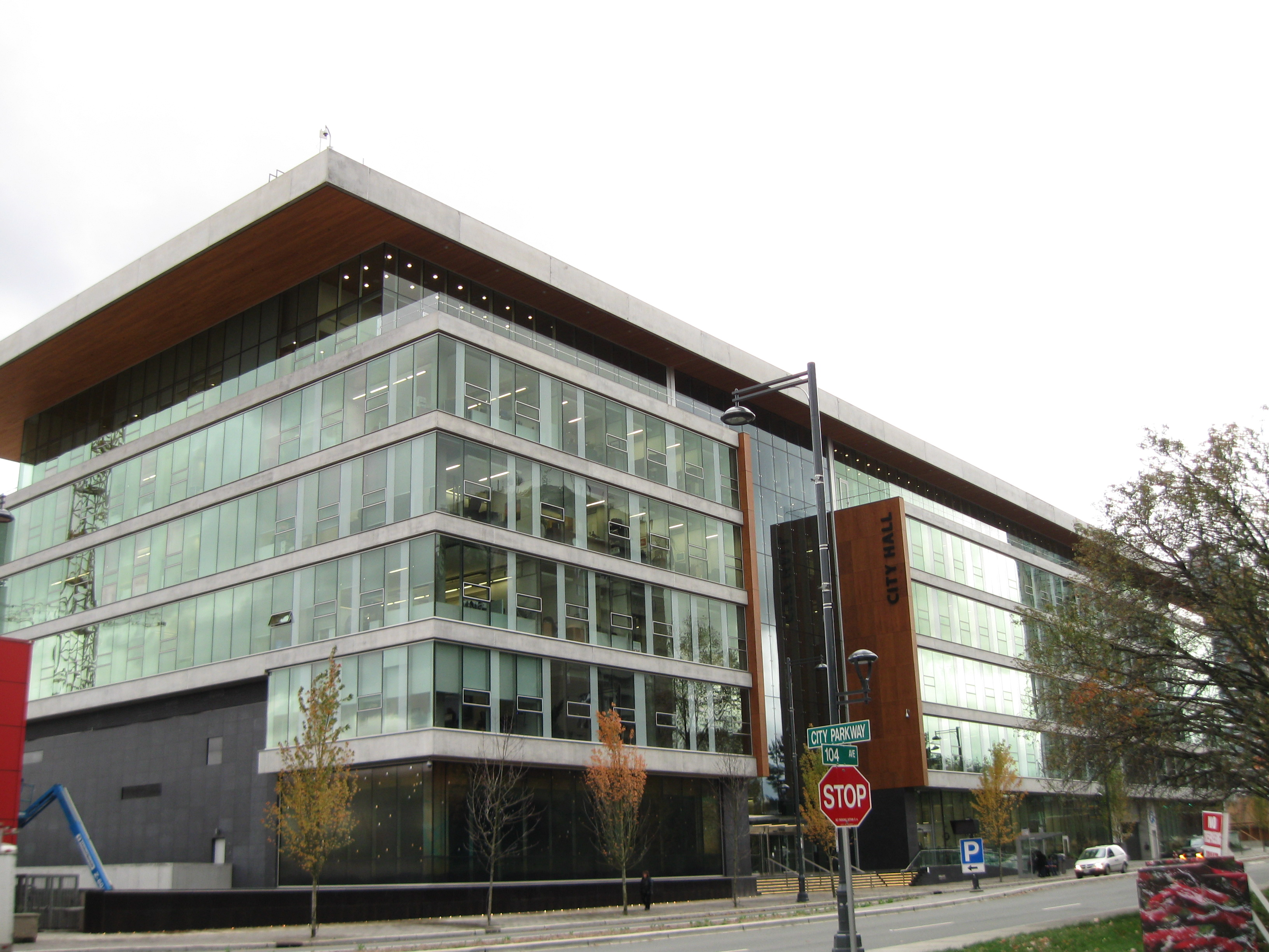 A south facing view of the new Surrey, BC, Canada, 210,000 square feet LEED City Hall building at 13450 104 Avenue in November 2014. It was opened on February 17, 2014. Note this City of Surrey source